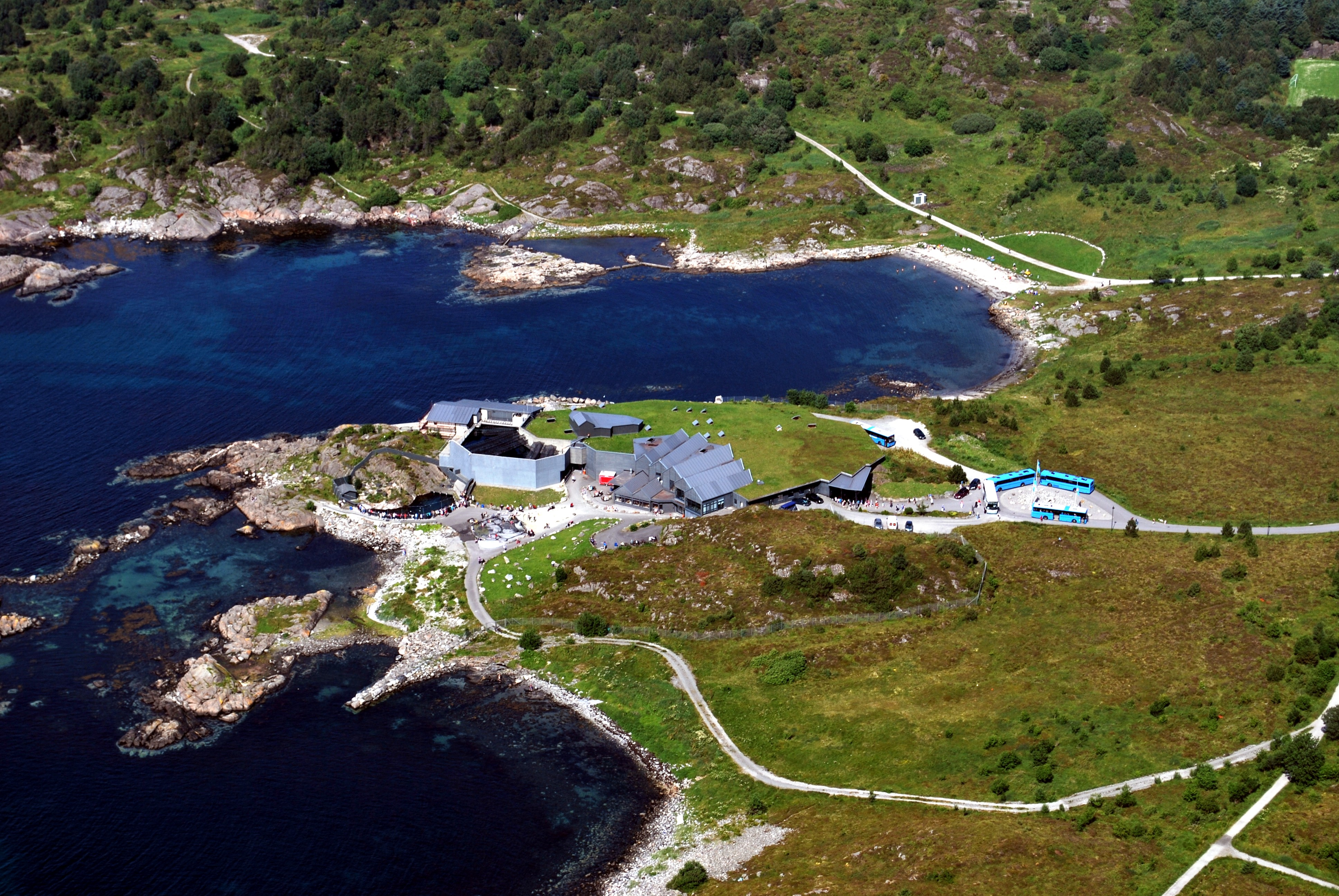 Atlanterhavsparken, Ålesund, Norway.